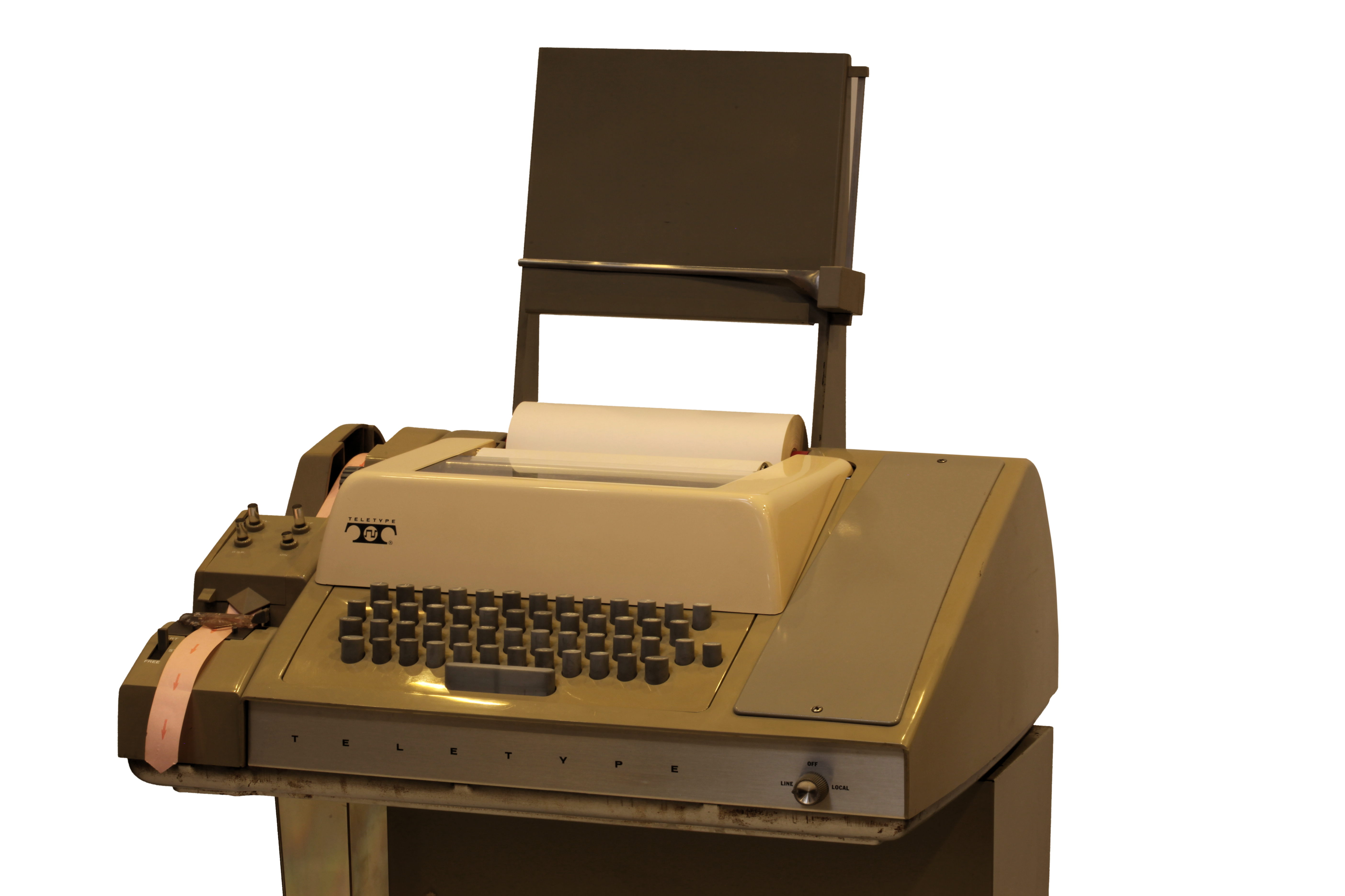 ASR-33 Teletype. On display at the Musée Bolo, EPFL, Lausanne.